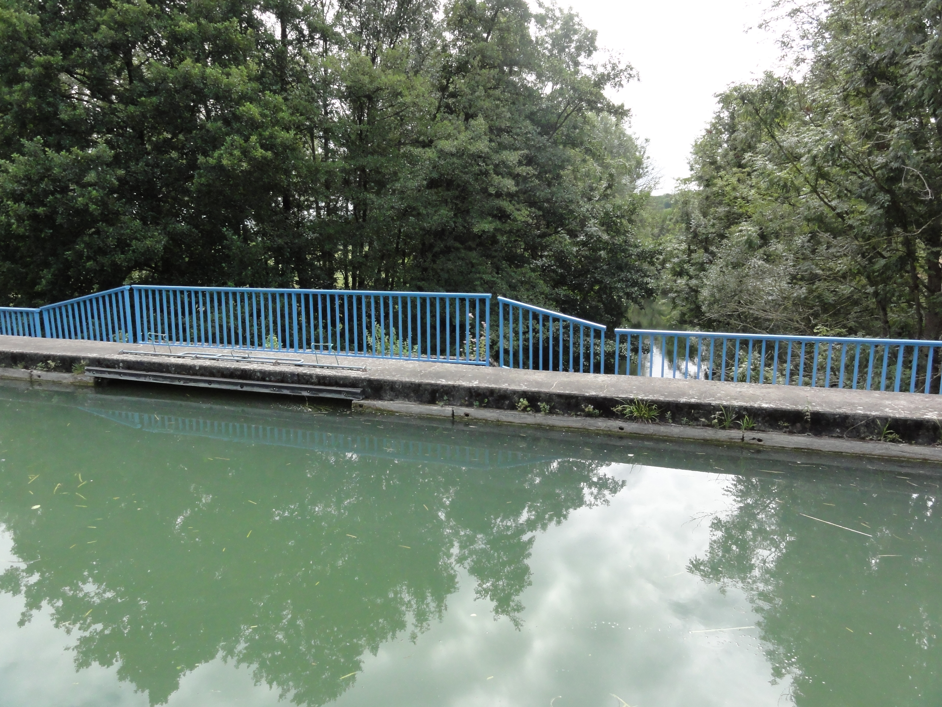 Menaucourt (Meuse) Canal de la Marne au Rhin pont-canal sur l'Ornain